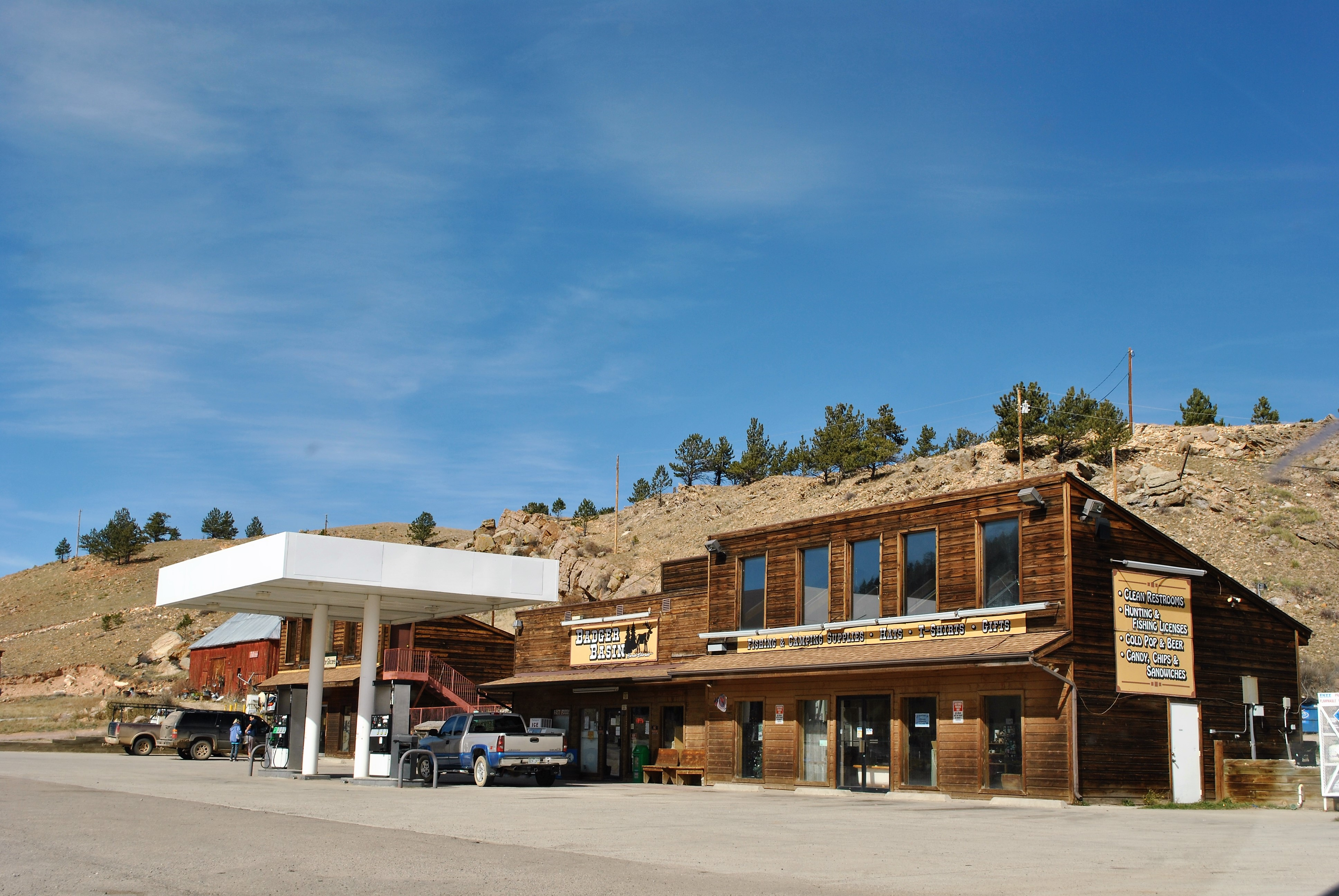 Hartsel